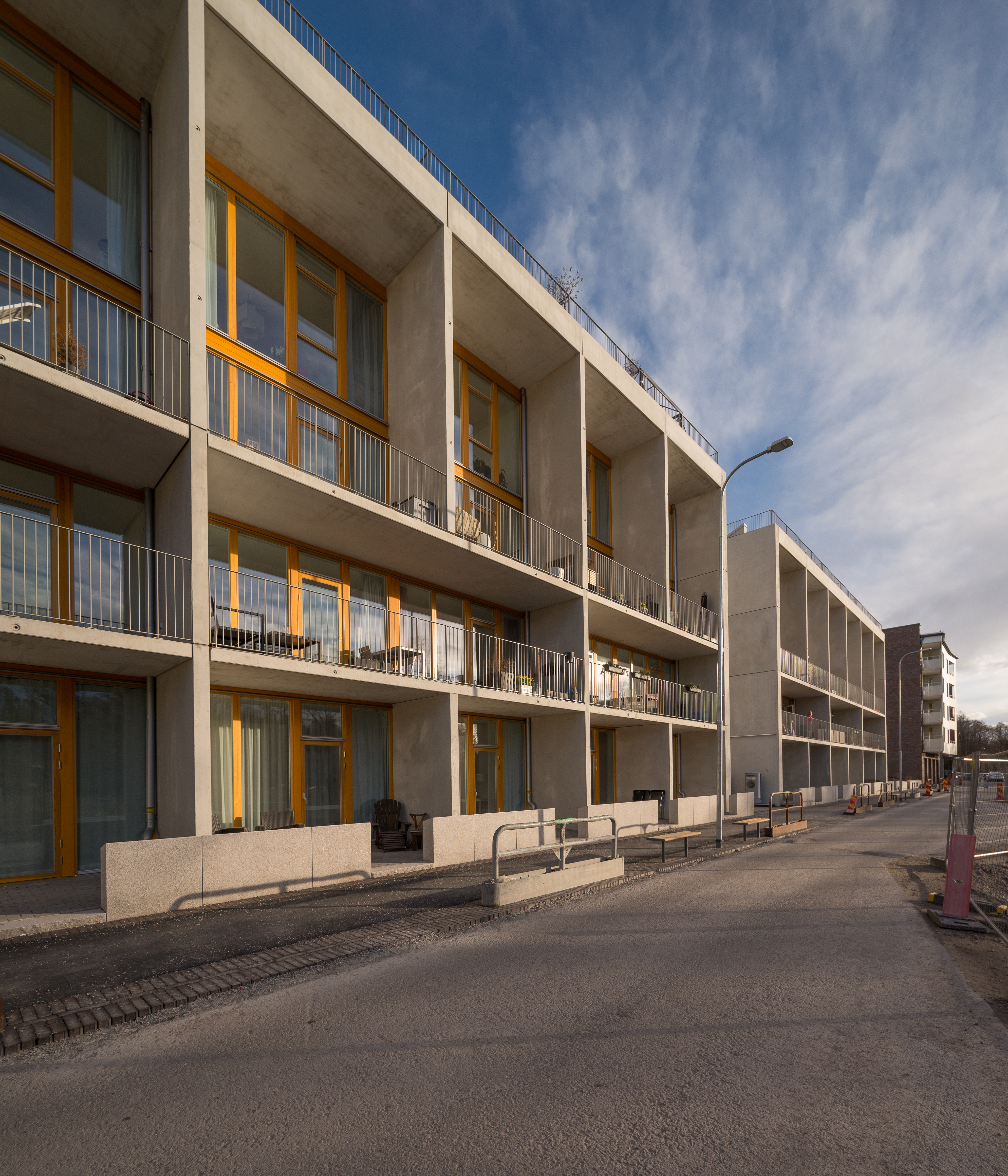 Stora Sjöfallet 2 is part of the city block Stora Sjöfallet in Norra Djurgårdsstaden, Stockholm. Sjöfallet 2 consists of 2 apartment buildings, built in 2016. Architects: JoliArk.}